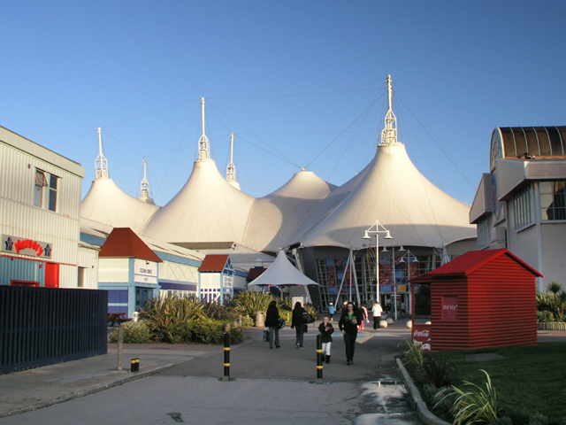 Skyline Pavilion, Butlin's, near to Felpham, West Sussex, Great Britain. Built in 1999 the Pavilion's large central space is achieved by suspending the centre of the roof from four of the outer pylons.